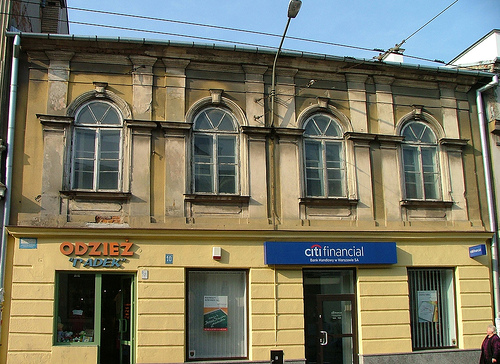 Chewra Nosim Synagogue in Lublin